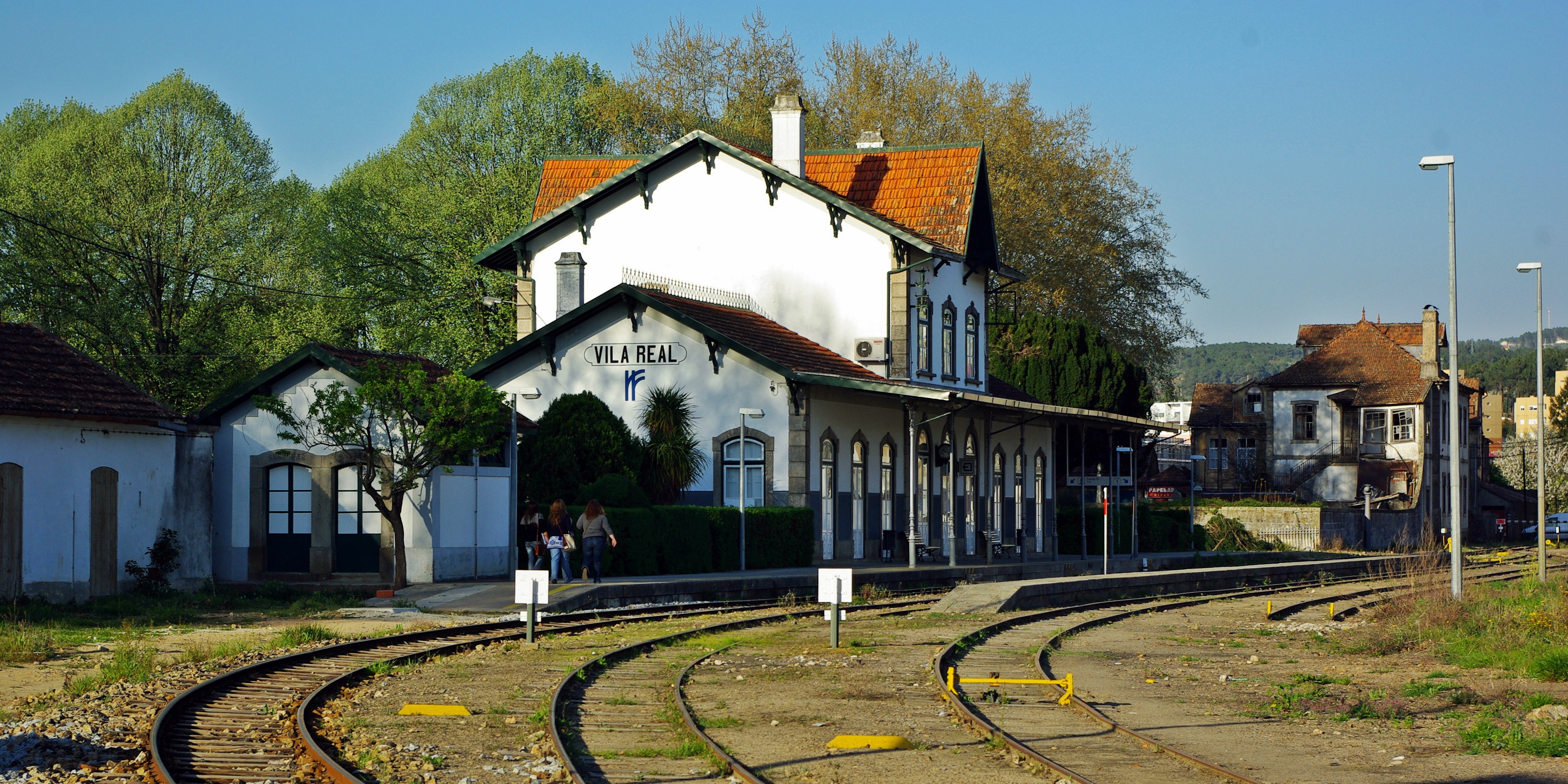 Vila Real train station, Portugal